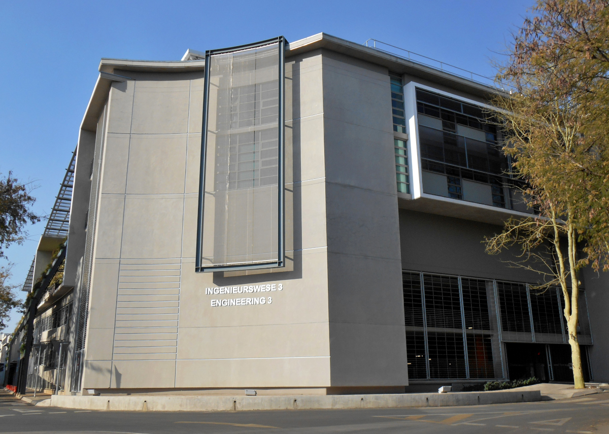 Engineering 3 Building on the Hatfield campus - University of Pretoria